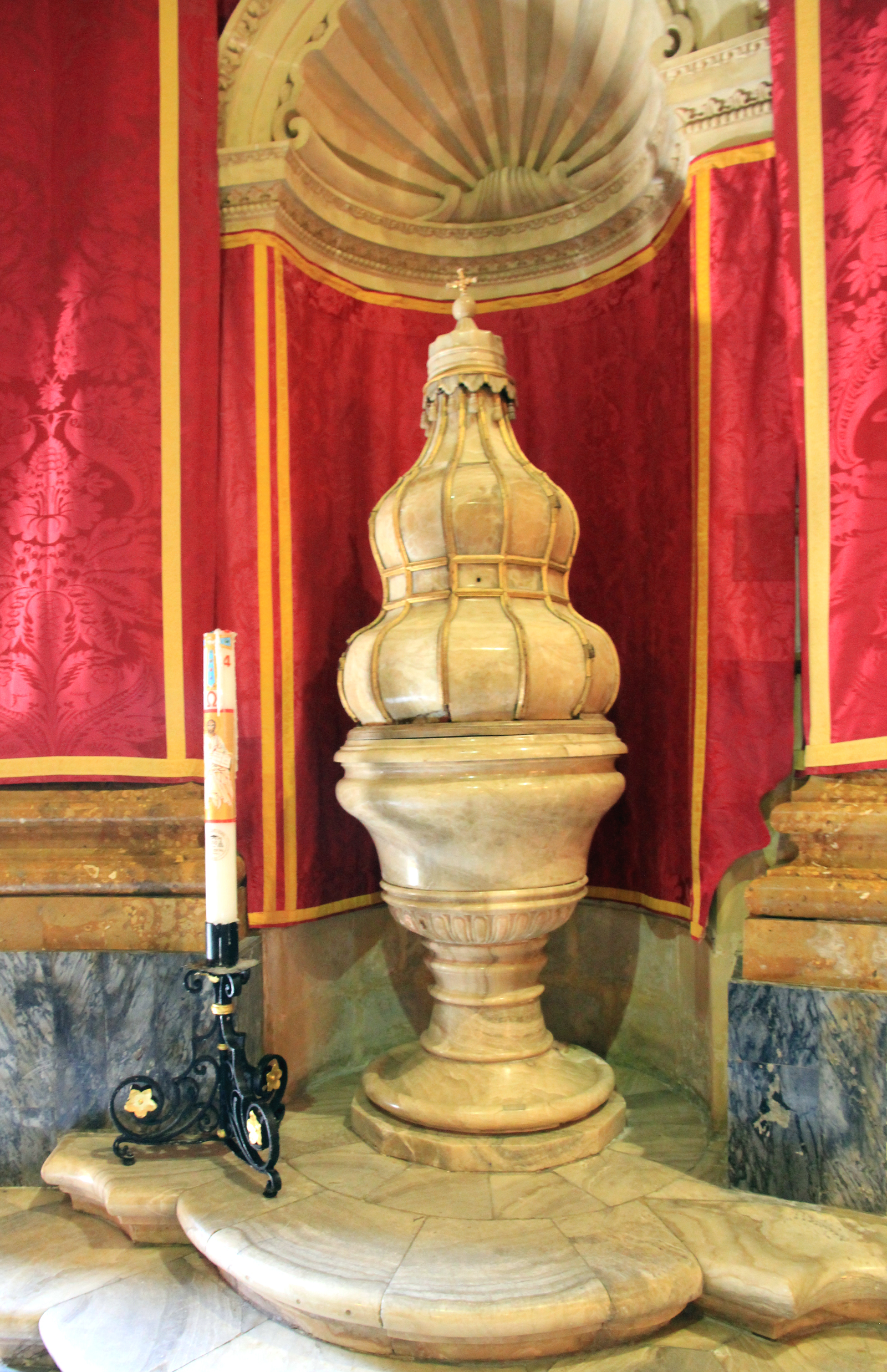 Interior of St. Marija Cathedral in Victoria - capital of Gozo island, Malta